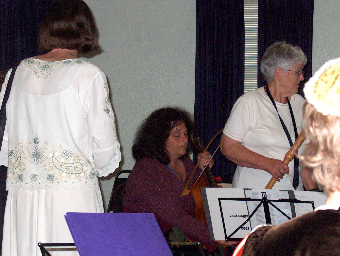 Shira Kammen at the Port Townsend Recorder Workshop, July, 2007.